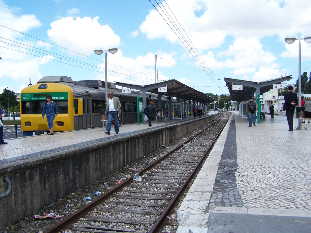 Algés station of the Linha de Cascais, Portugal